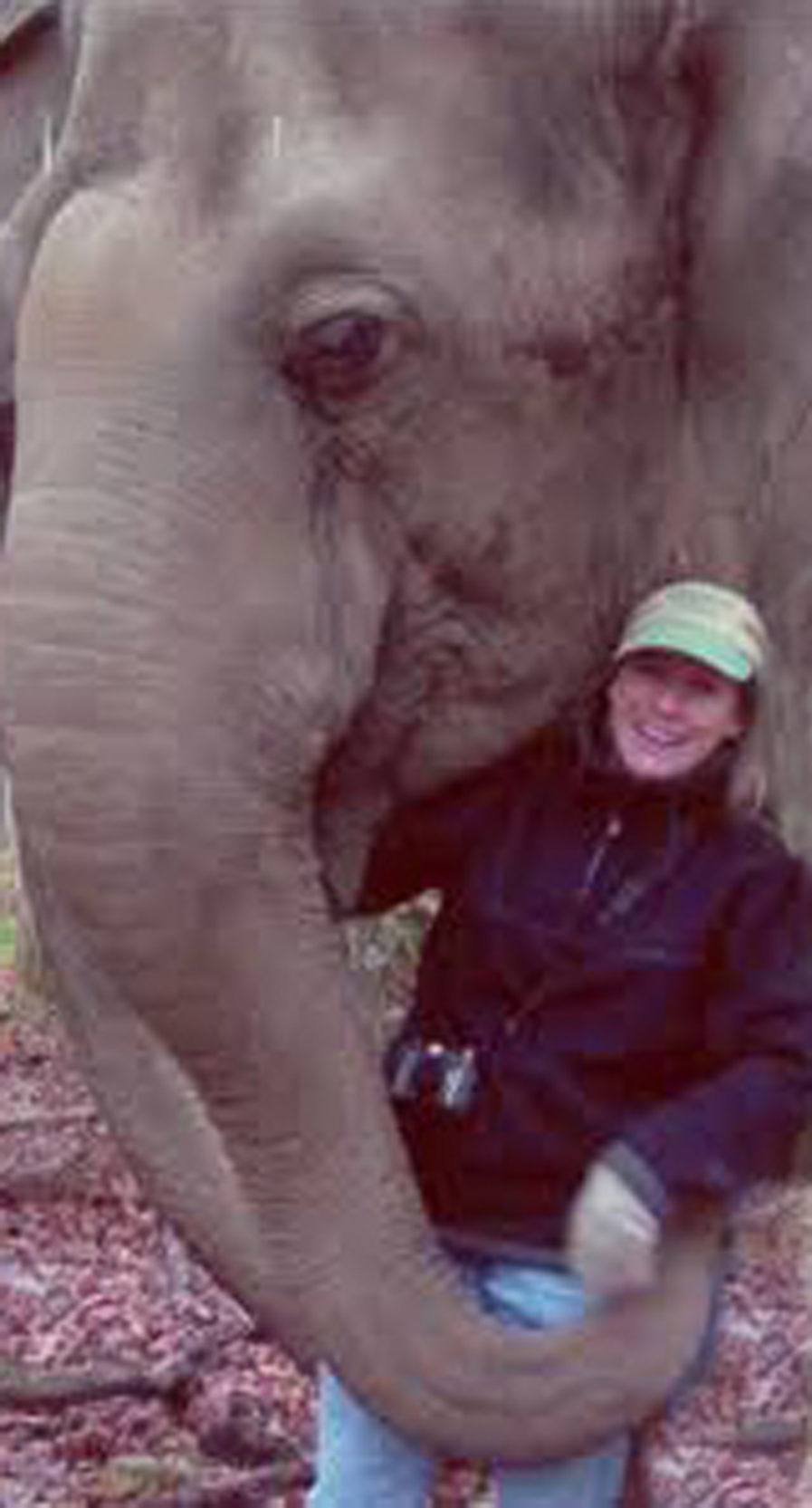 Carol and Tarra